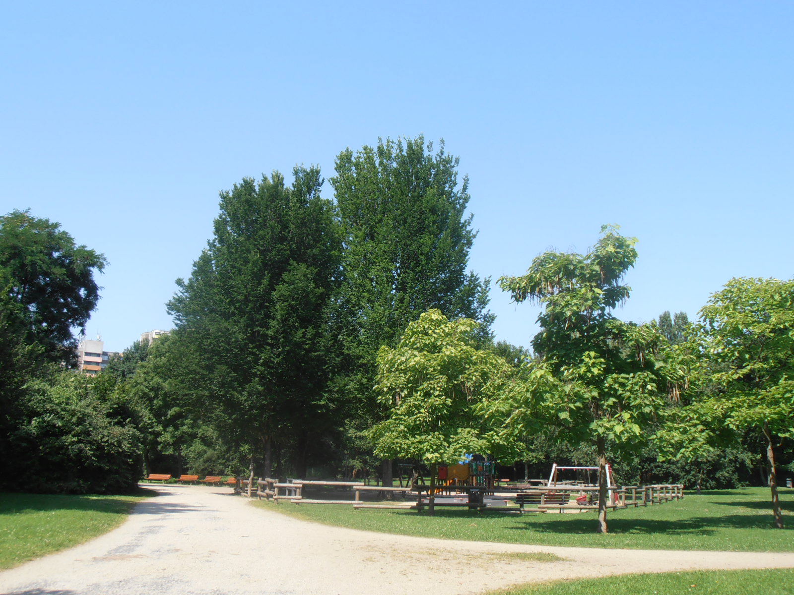 Snapshot: Elli-Lucht-Park impression, Niederrad